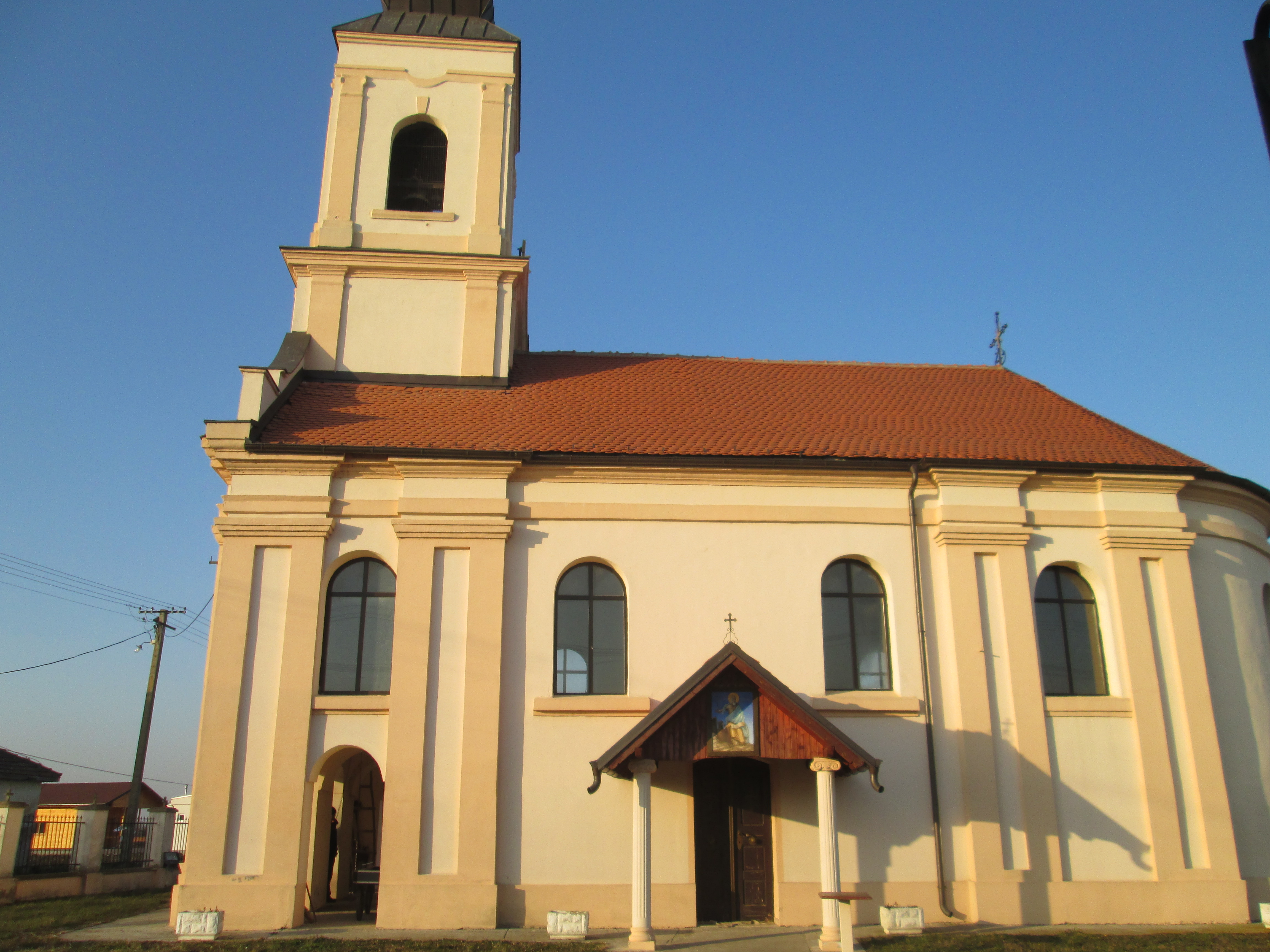 Saint John's Church, Sremski Mihaljevci Српски (ћирилица): Црква Св. Јована, Сремски Михаљевци